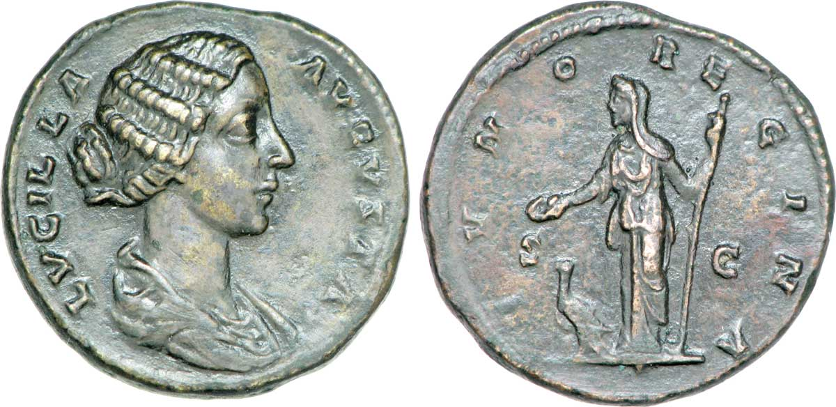 Dupondius à l'effigie de Lucille Date : 166-169 Le grand problème du monnayage de Lucille est de savoir si celui-ci a cessé après la mort de son mari Lucius Vérus ou, au contraire, a continué sous le règne seul de son père, Marc Aurèle. Description revers : Junon drapée et voilée, debout à gauche, tenant une patère de la main droite et un sceptre de la gauche ; à ses pieds, à gauche, un paon .